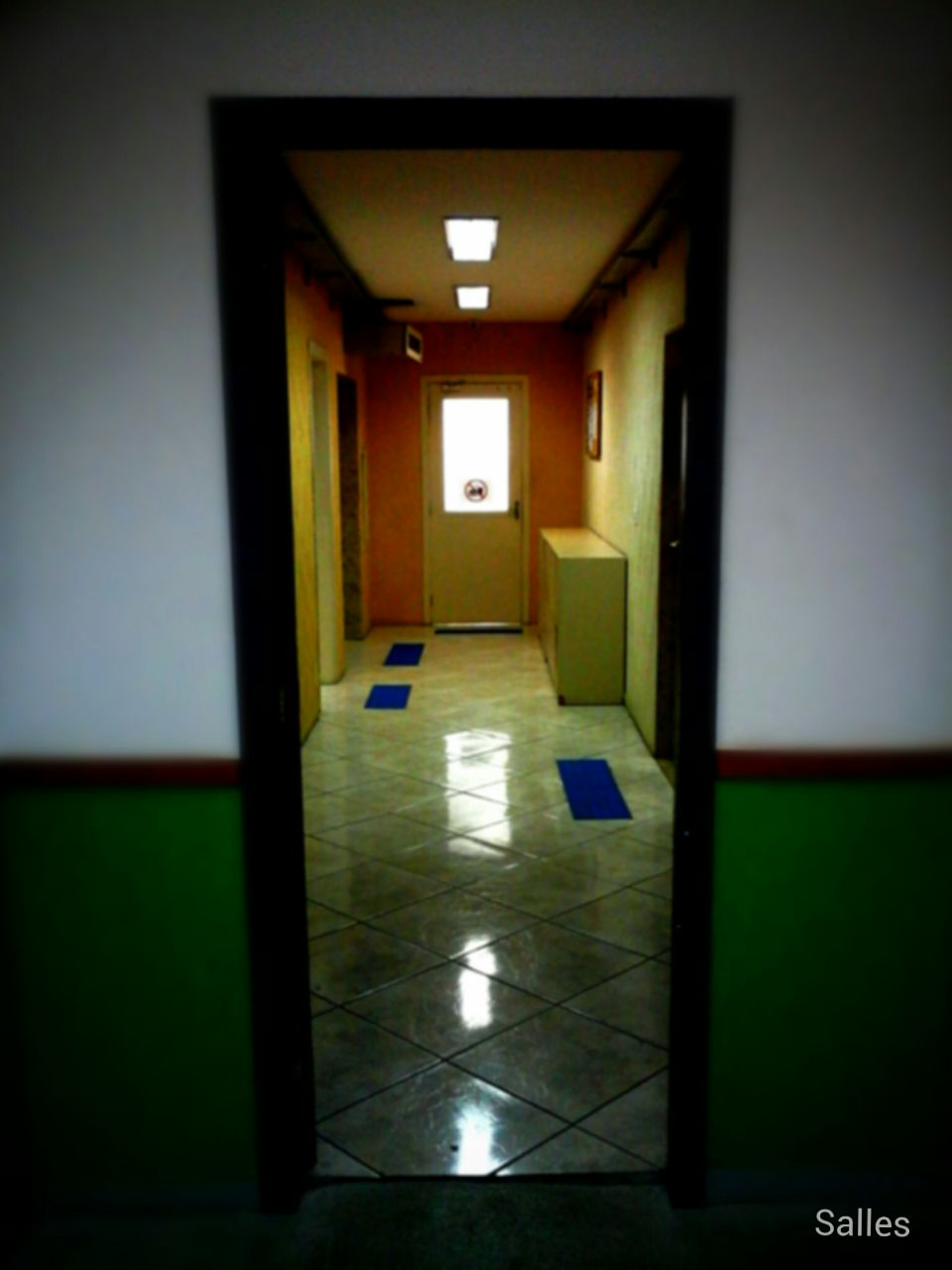 fear takes over, you go on or run?